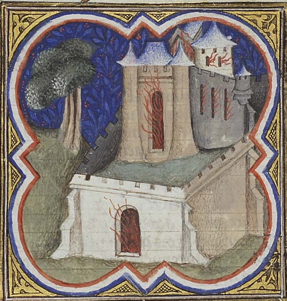 Nebuzaradan burns down the temple and the palace of Jerusalem